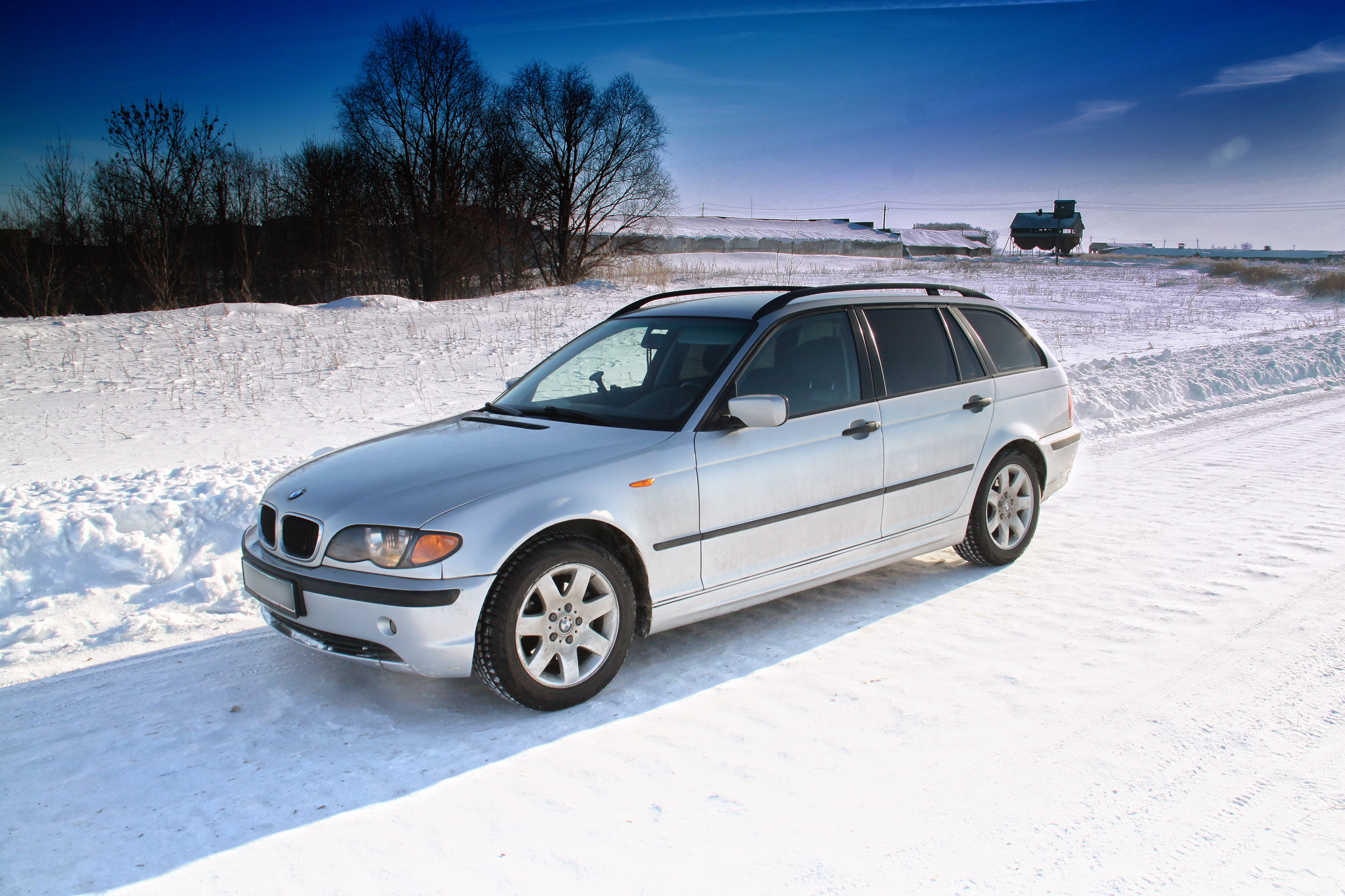 BMW E46 Touring